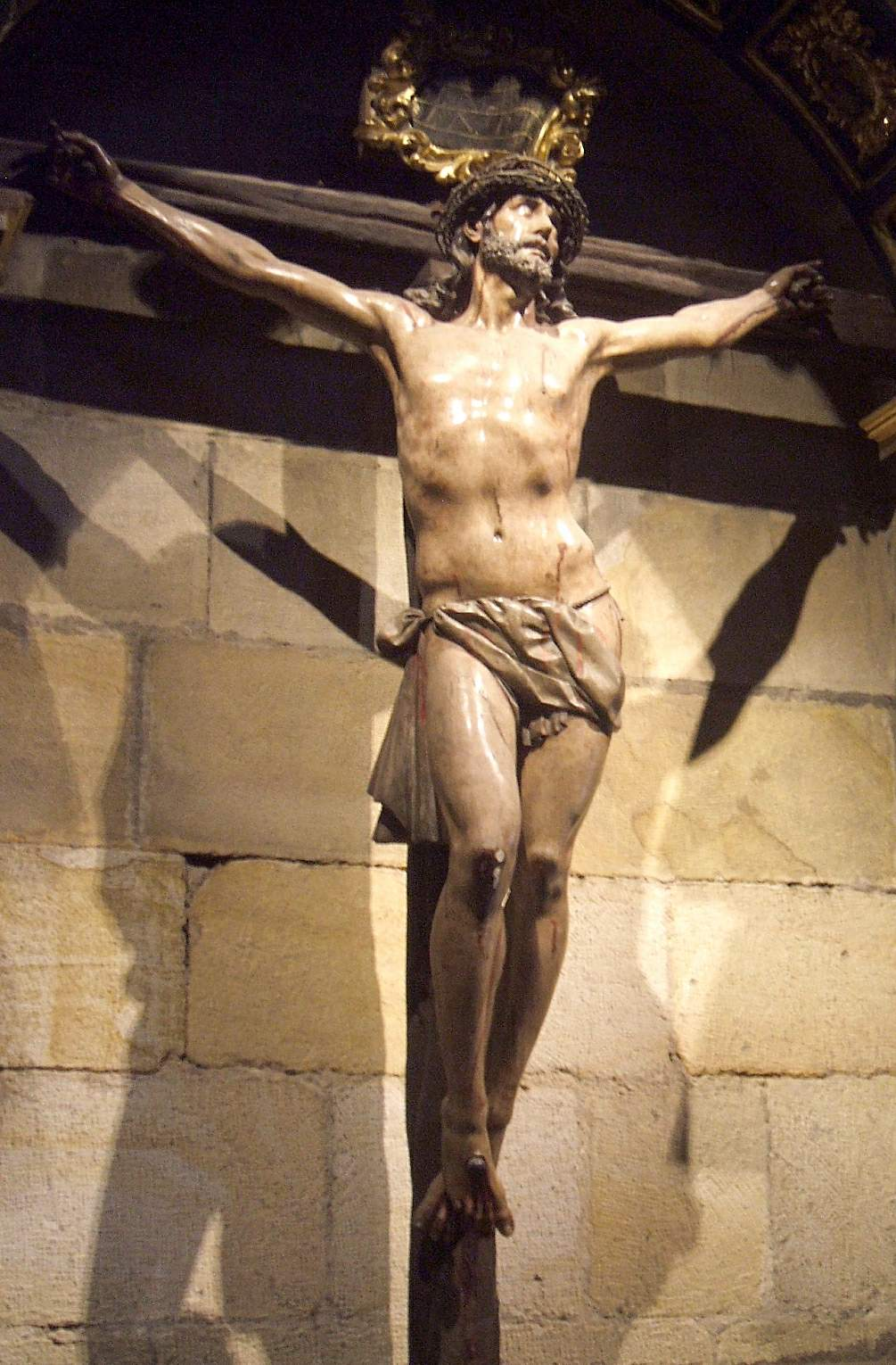 Crucificado en la iglesia de San Juan de Rabanera (Soria)